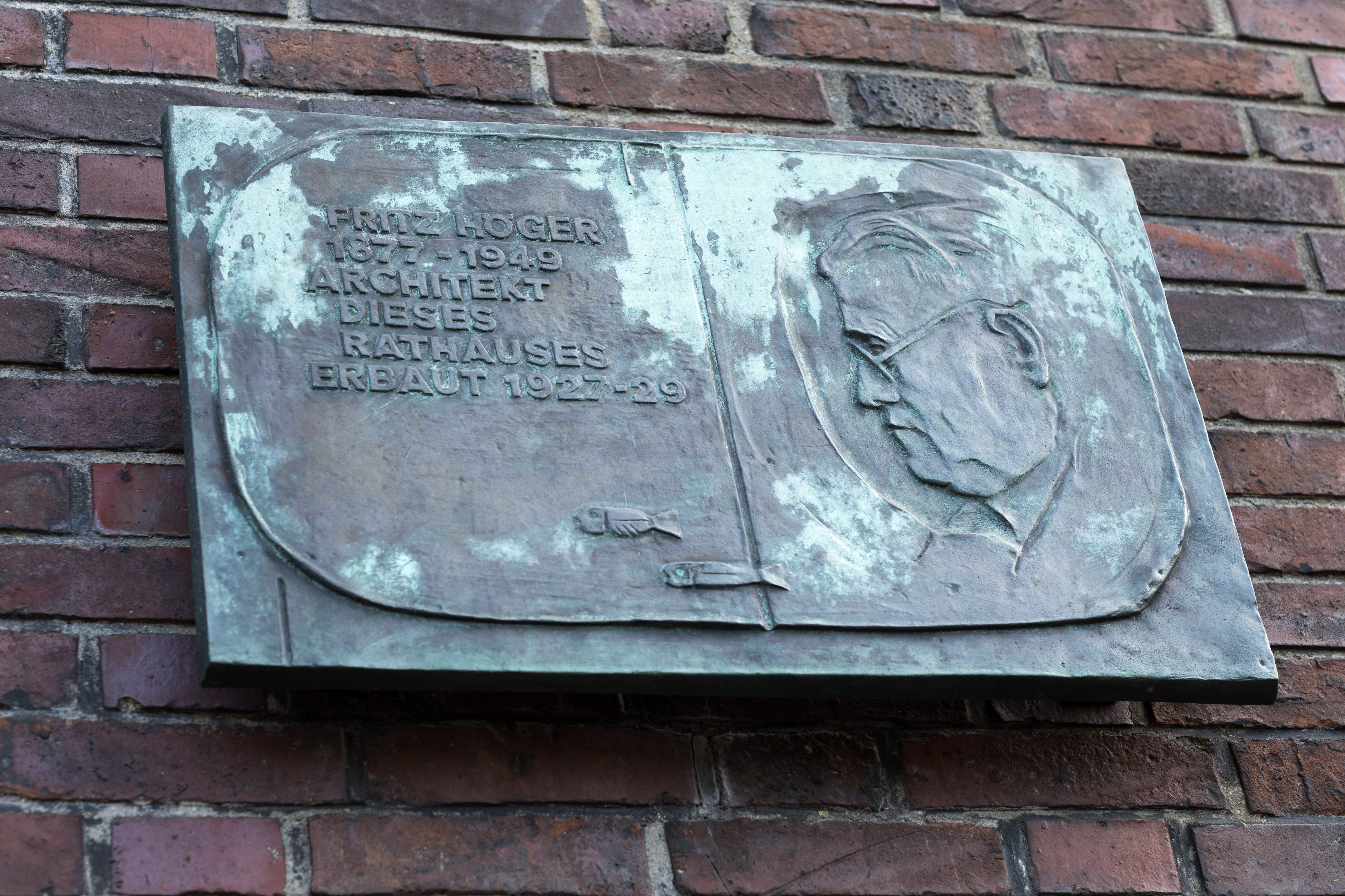 Wilhelmshaven townhall located in Wilhelmshaven, Lower Saxony, Germany. Detailed view of the memorial panel for architect Fritz Hoeger. The panel is installed close the main entrance on the right, at the northern facade.